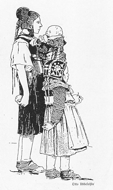 Hinterland mother with children from Bottenhorn